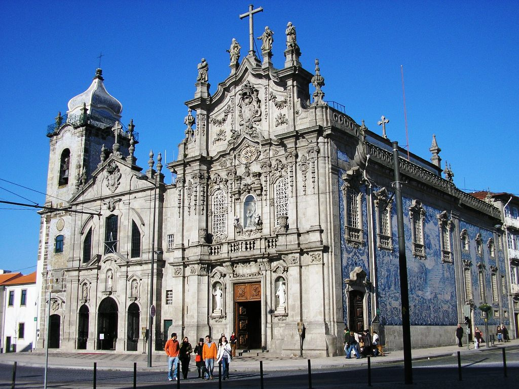 "Carmelitas" (left) and "Carmo" (right) churches in Porto, Portugal.